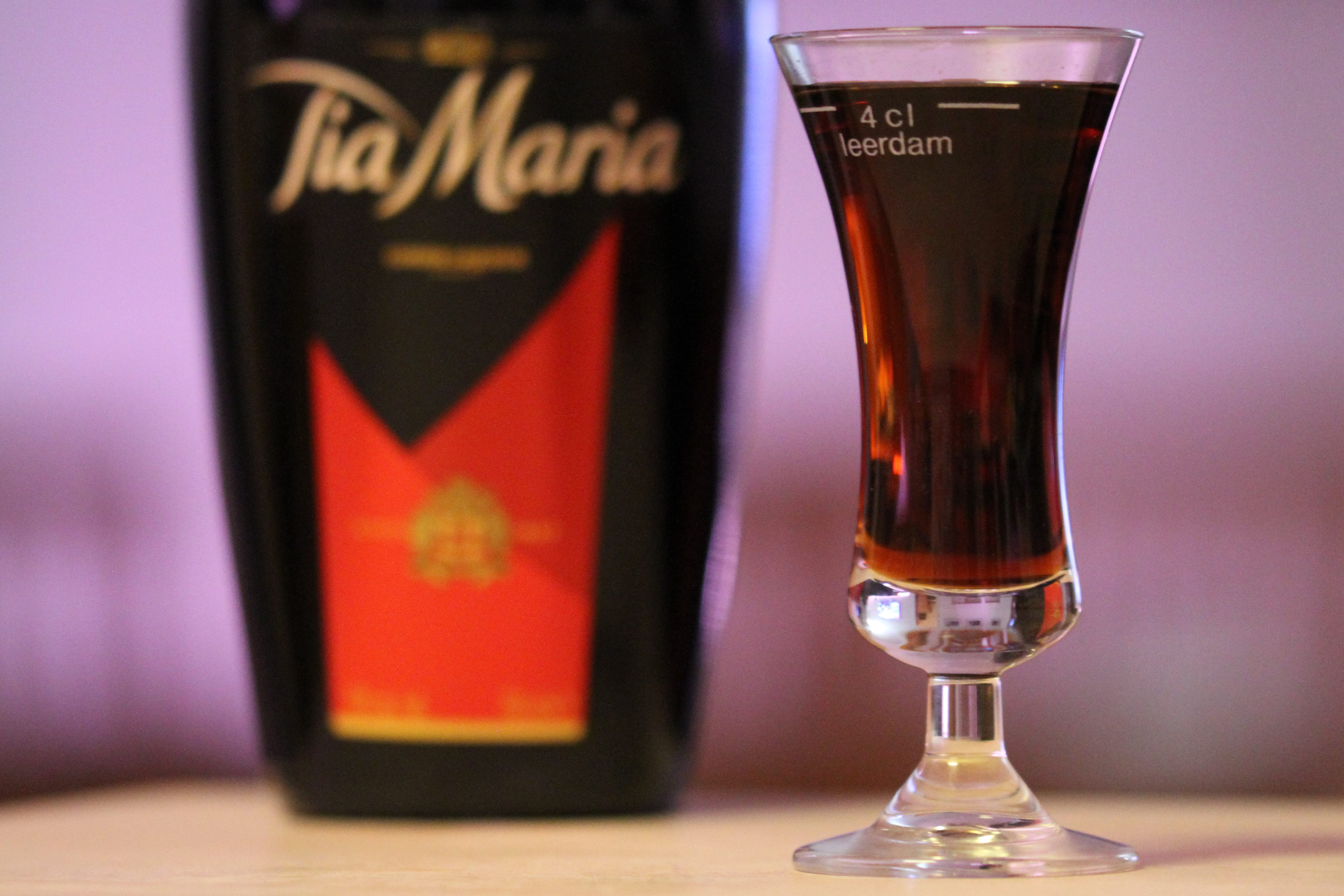 Tia Maria, a dark liqueur made originally in Jamaica using Jamaican coffee beans.